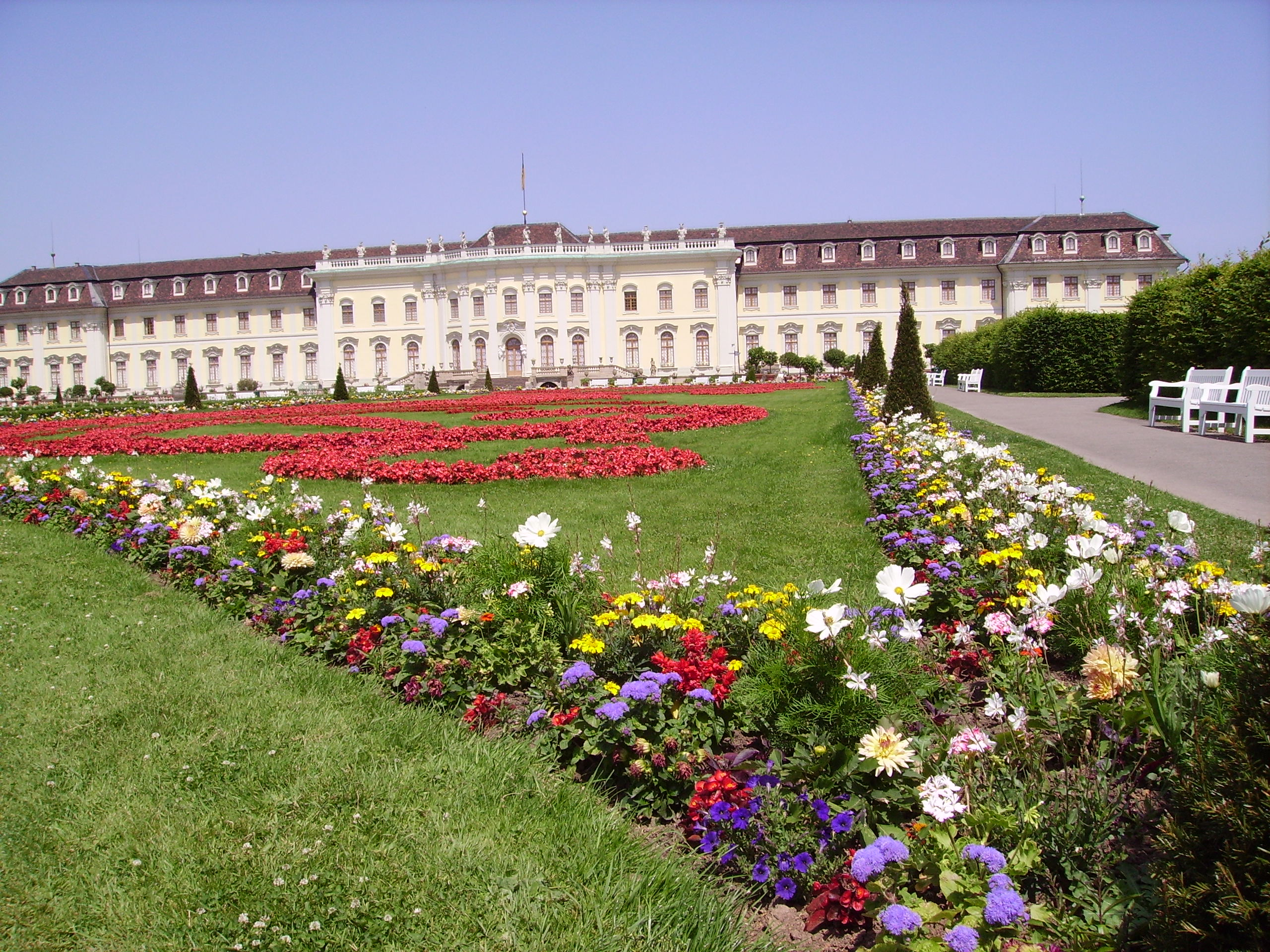 Garden at Schloss Ludwigsburg, Germany.